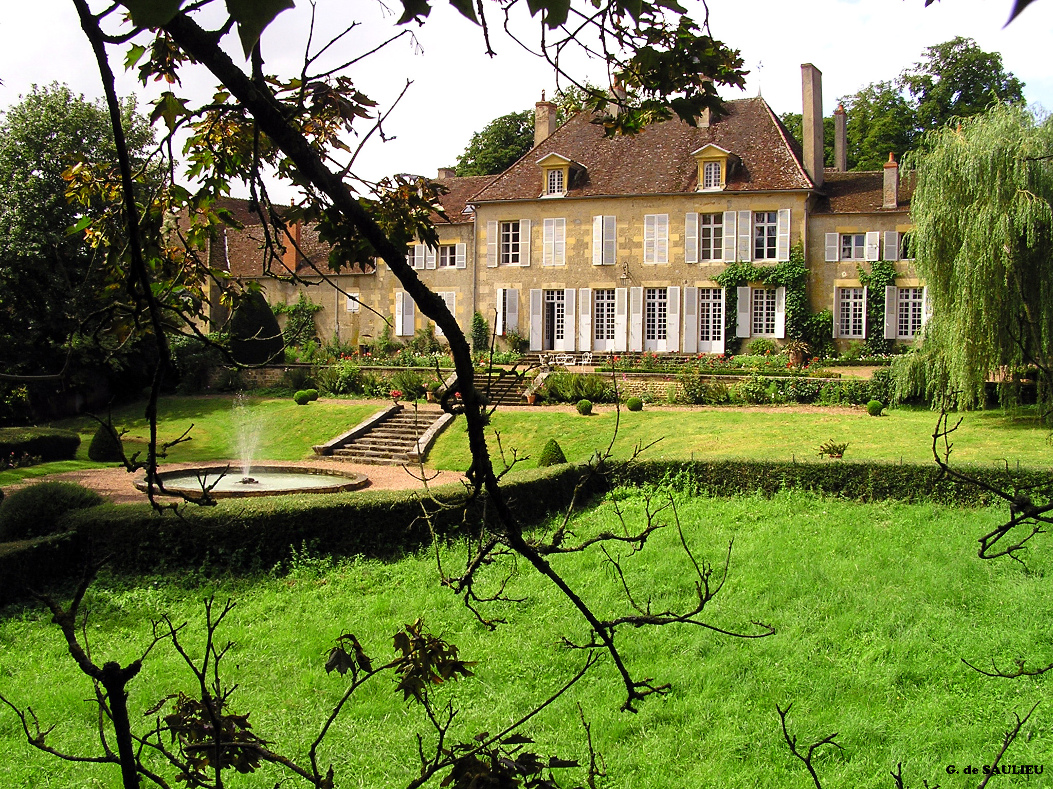 Gentilhommière de Lurcy le Bourg. Vue du parc.